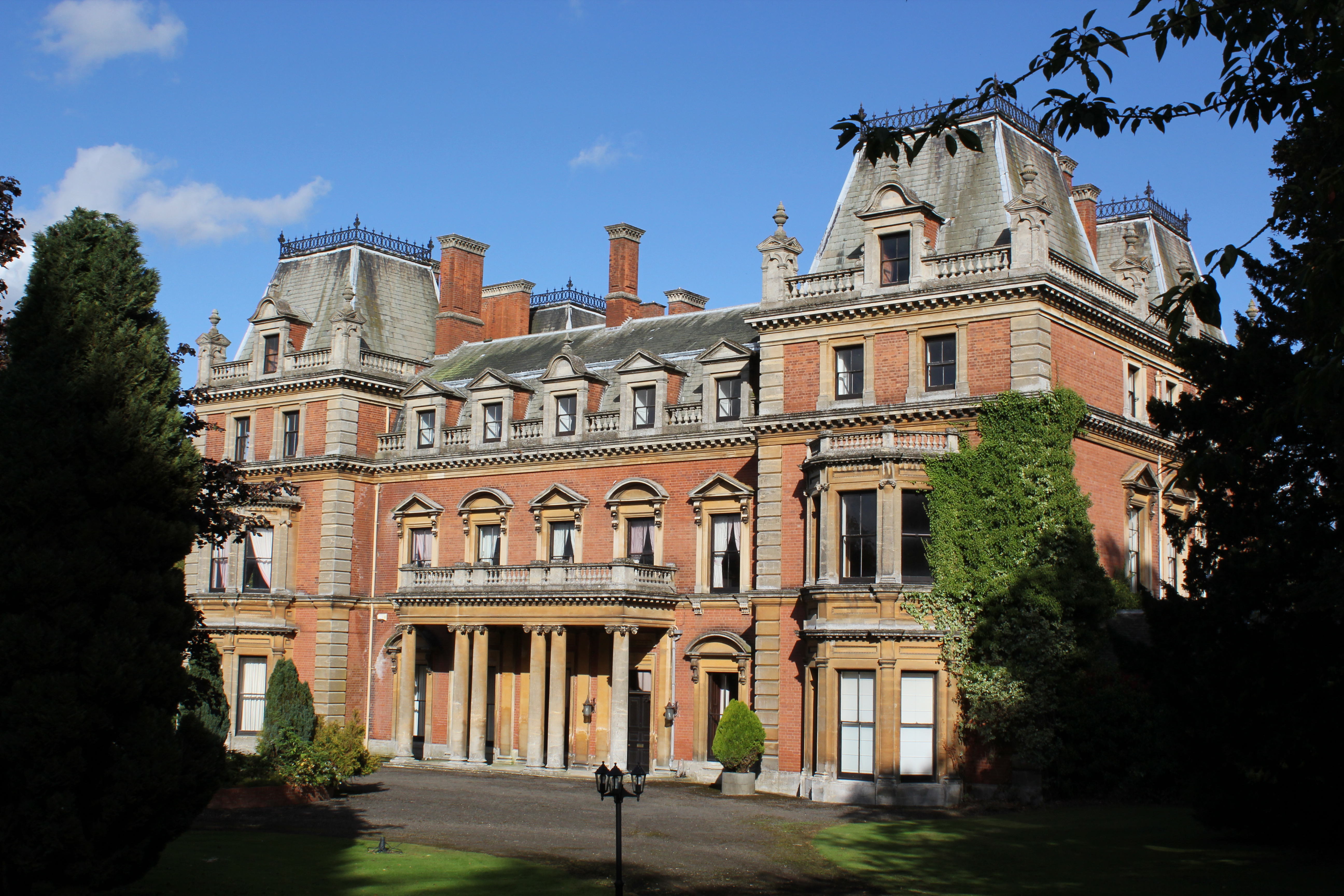 West elevation and main entrance of the hall